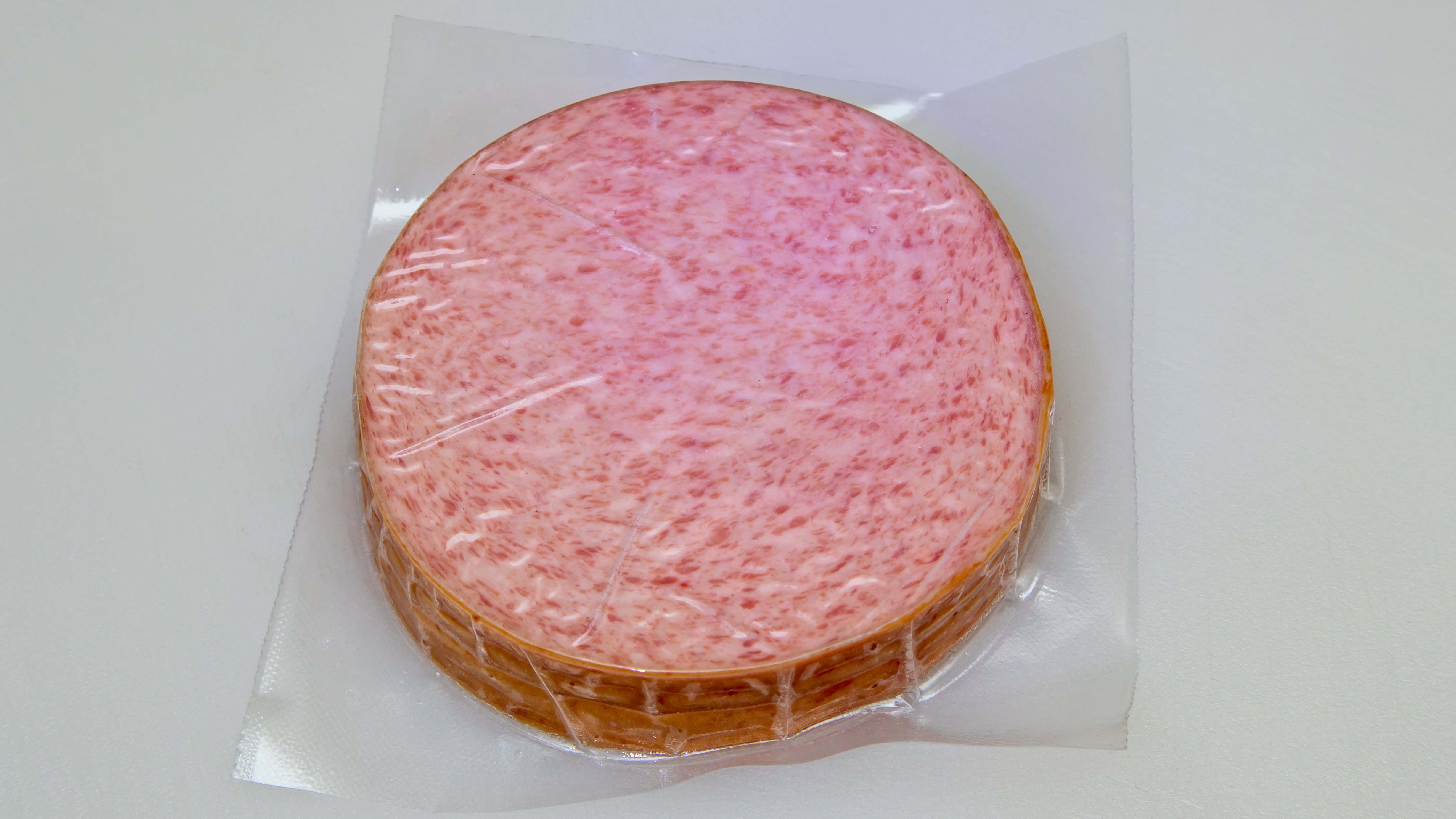 Shoprite Pork Roll (a Taylor's Pork Roll imitation) in plastic packaging